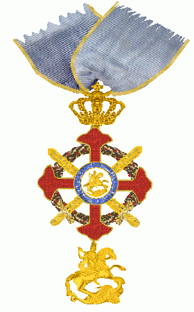 Real Ordine Militare di San Giorgio della Riunione Royal Order of Saint George and the Reunion